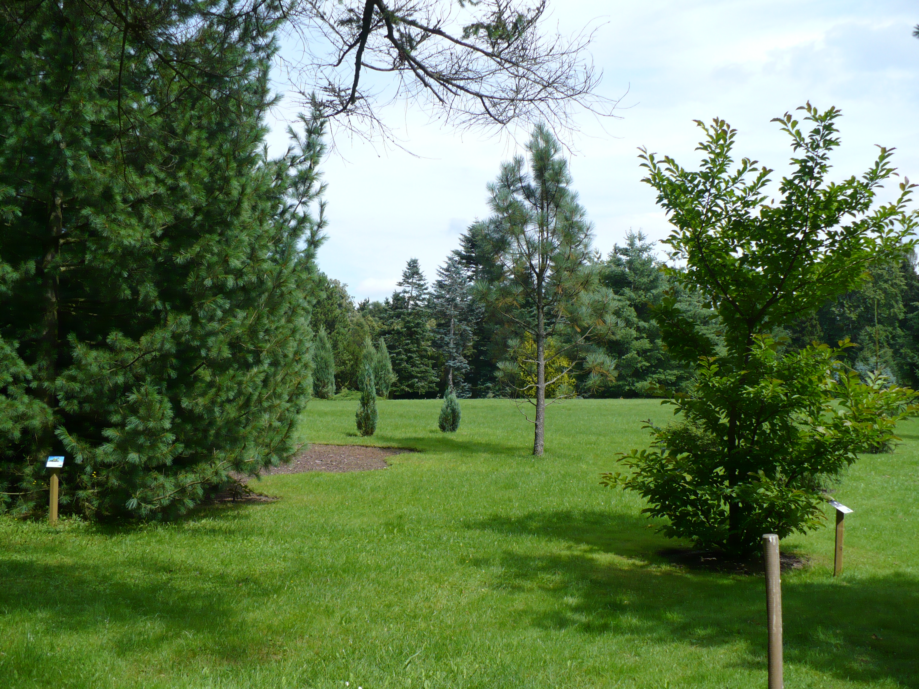 Poland, Wirty - arboretum.